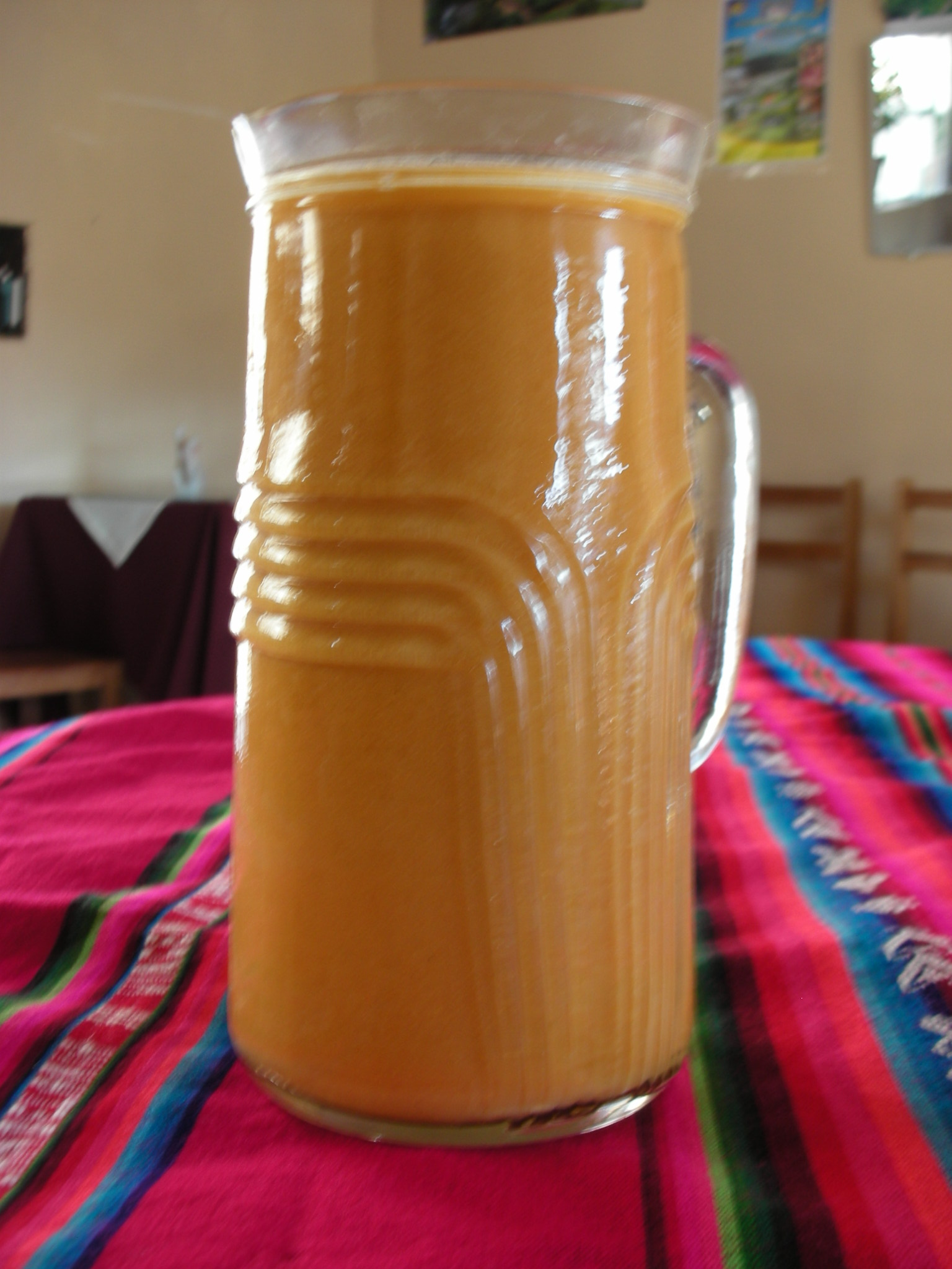 Refresco de Tumbo